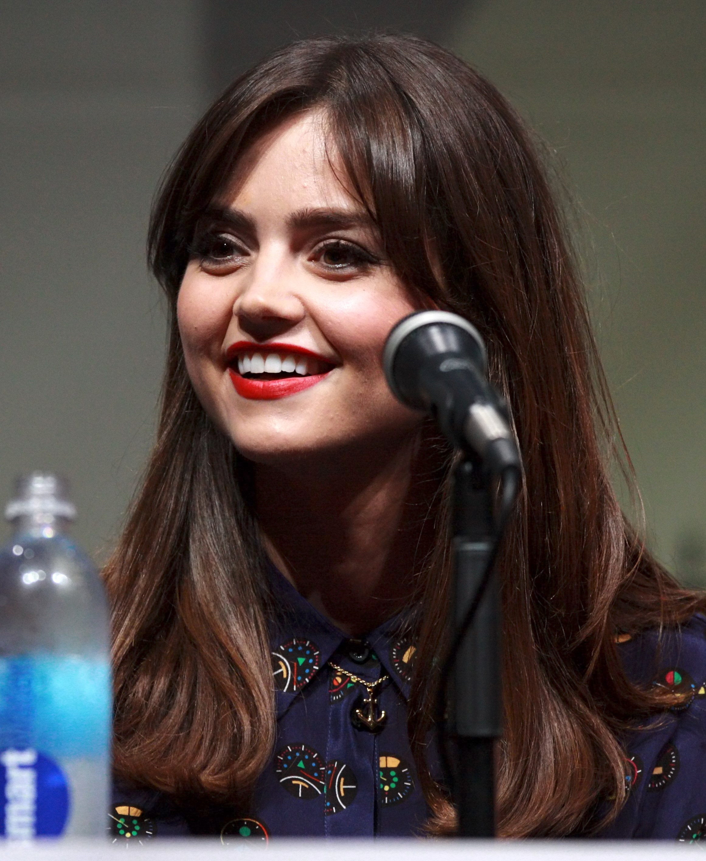 Jenna Coleman at the 2013 San Diego Comic Con International in San Diego, California.